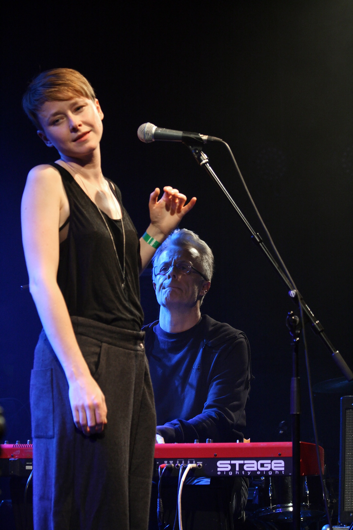 "The Twisted World of I-Wolf": Slow Club Revisited with Violetta Parisini, Wolfgang Schlögl, Thomas and Jakob Rabitsch (WUK, Vienna).